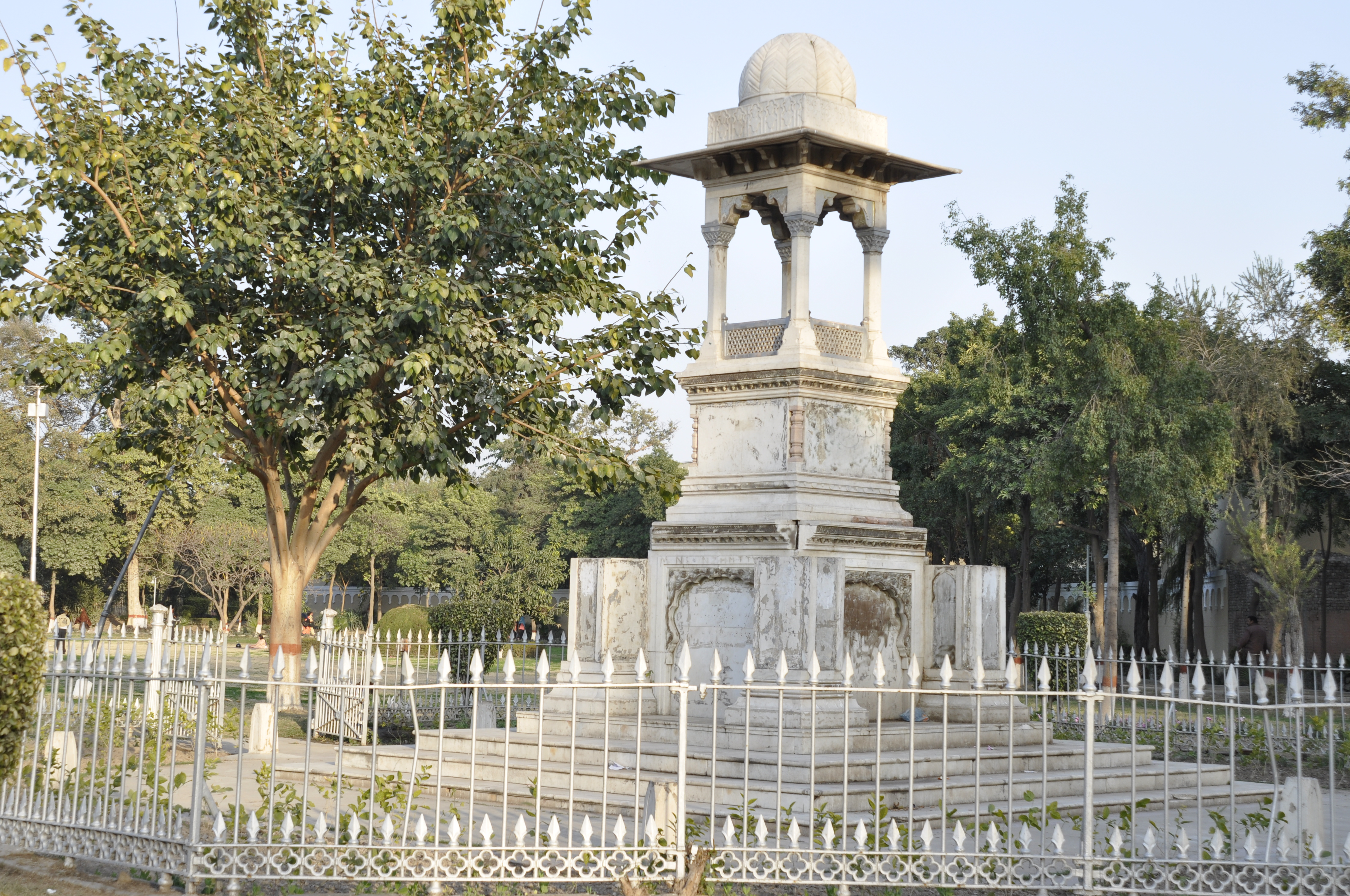 This the picture of what is known as Sir James Lyall's Tomb in Faisalabad Pakistan (actually it is a memorial as Lyall is buried in Kent). It is situated in a park named Company Park.